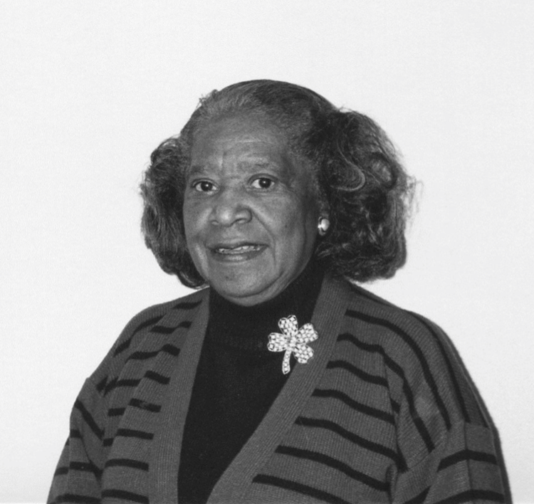 Portrait from obituary of Mary Jackson, NASA engineer